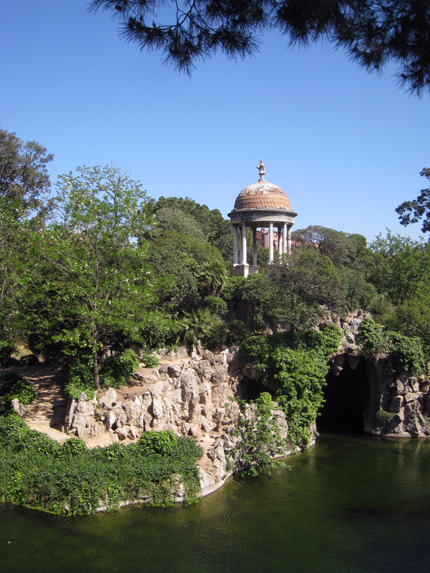 A Pond with a artificial grotto and an gloriette on an elevation in the Parc de la Torreblanca located between the municipalities of Sant Just Desvern, Sant Feliu de Llobregat and Sant Joan Despí, Catalonia, Spain.